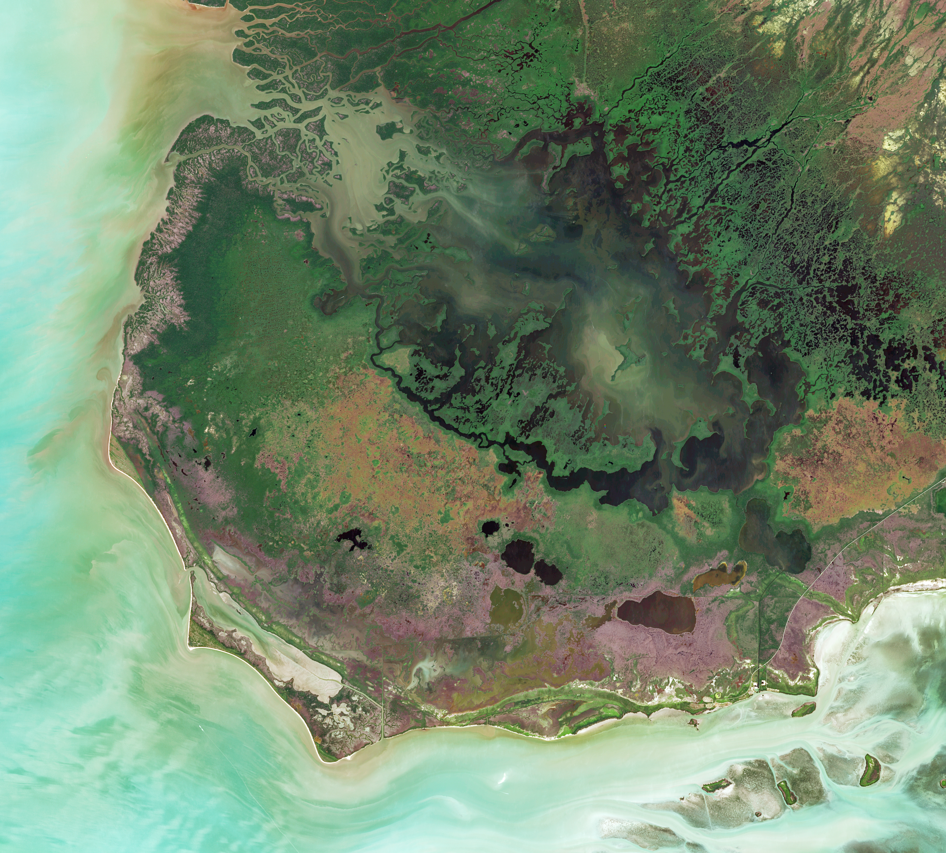 Date: 2019-03-22 Sensor: MSI on Sentinel-2B Resolution: 10m RGB Composites: True color, Band 4-3-2